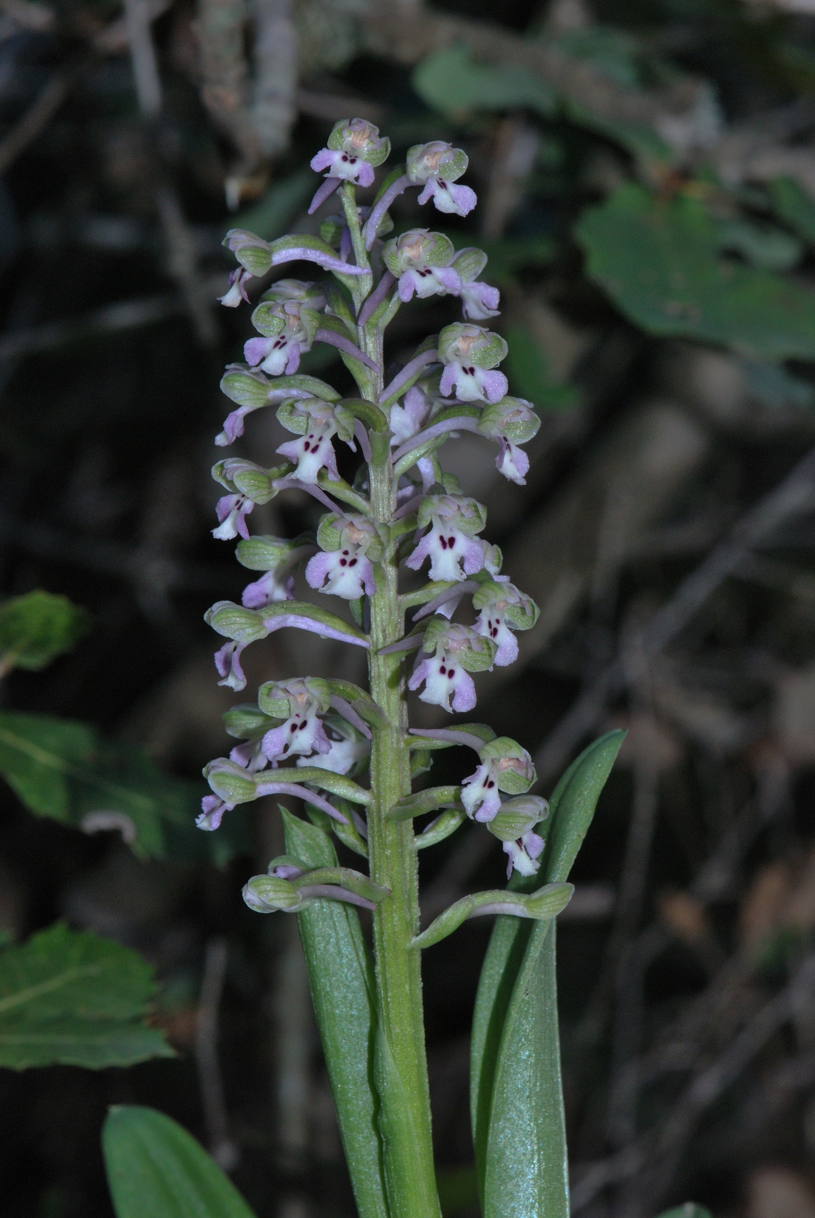 Anacamptis israelitica (Orchis israelitica), Har Shezor, Upper Galilee, Israel, March 4, 2011.